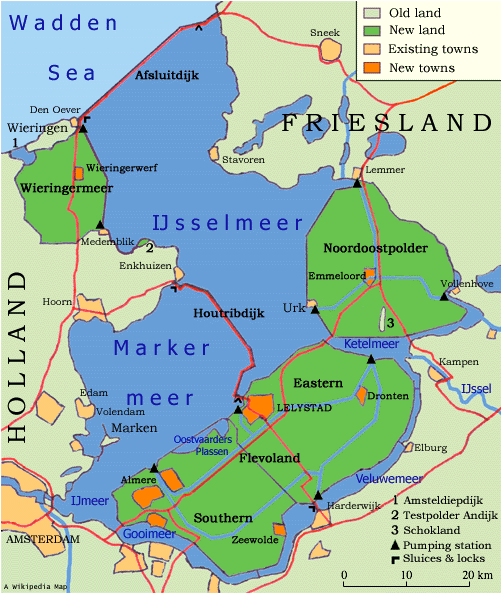 A map of the Zuiderzeeworks in the Netherlands. Made specifically for use in the Wikipedia article